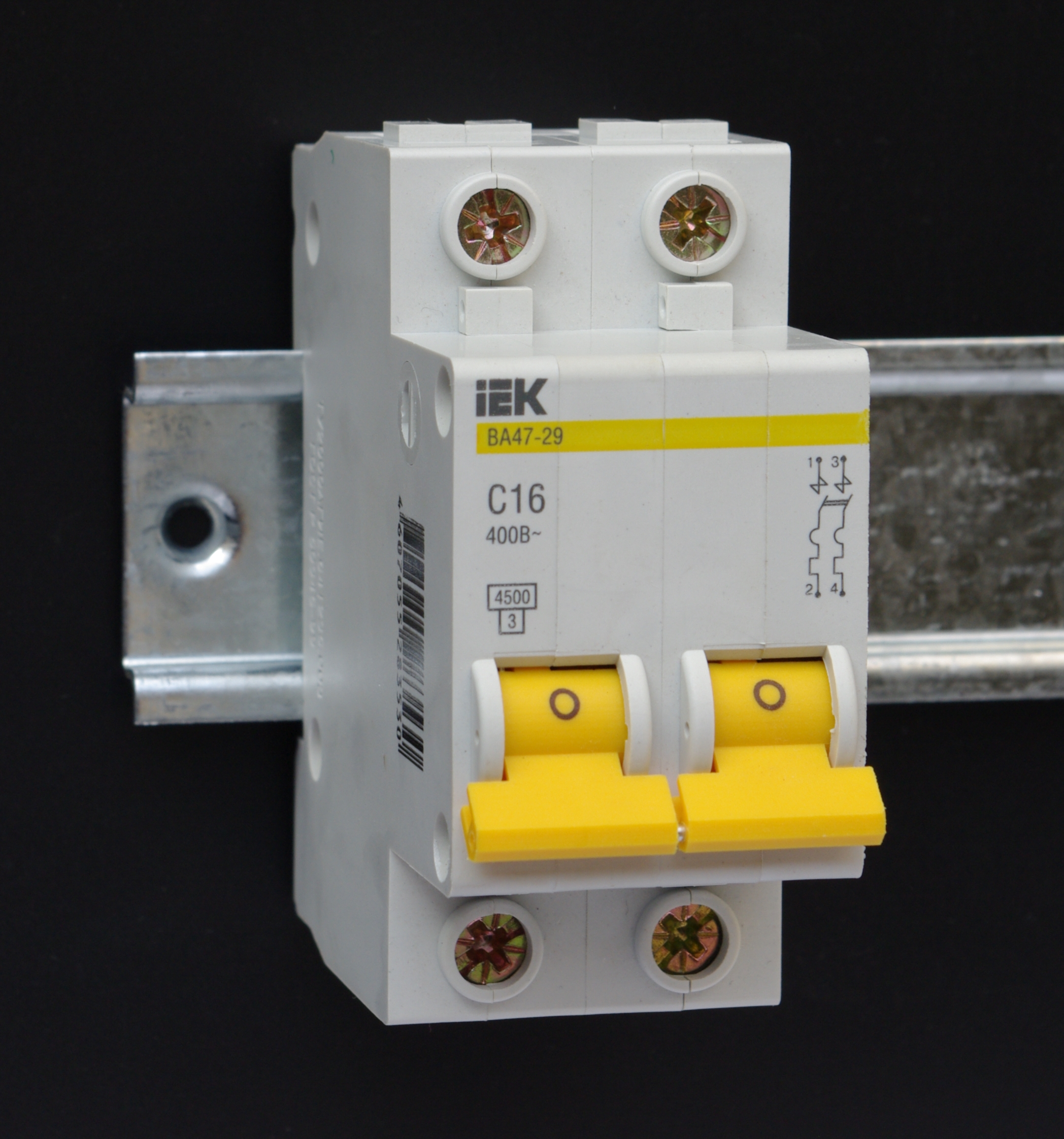 2 pole C16 circuit breaker mounted on DIN rail